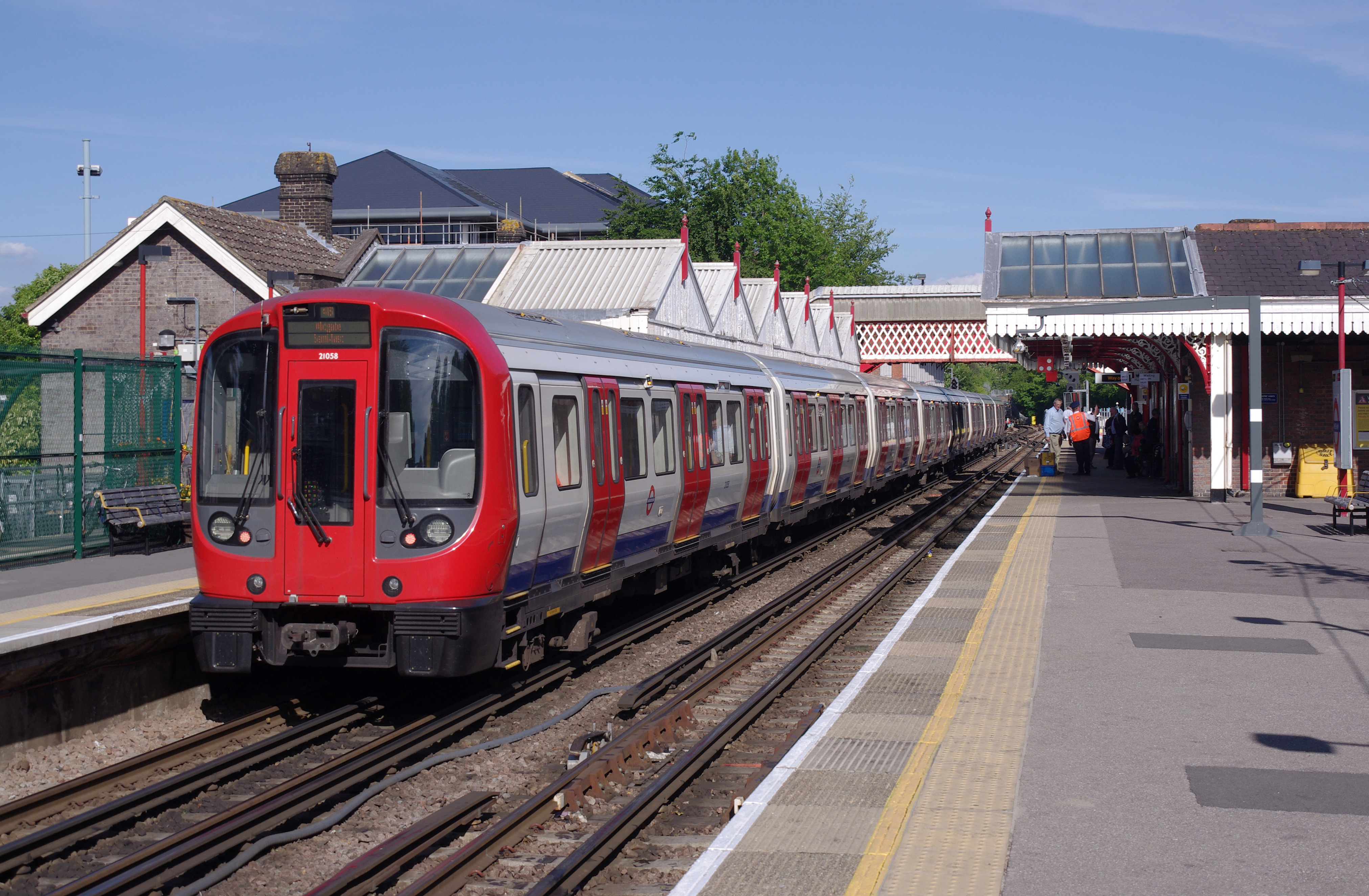 A London Underground S Stock EMU stands at Amersham with an all stations Metropolitan Line service to Aldgate.